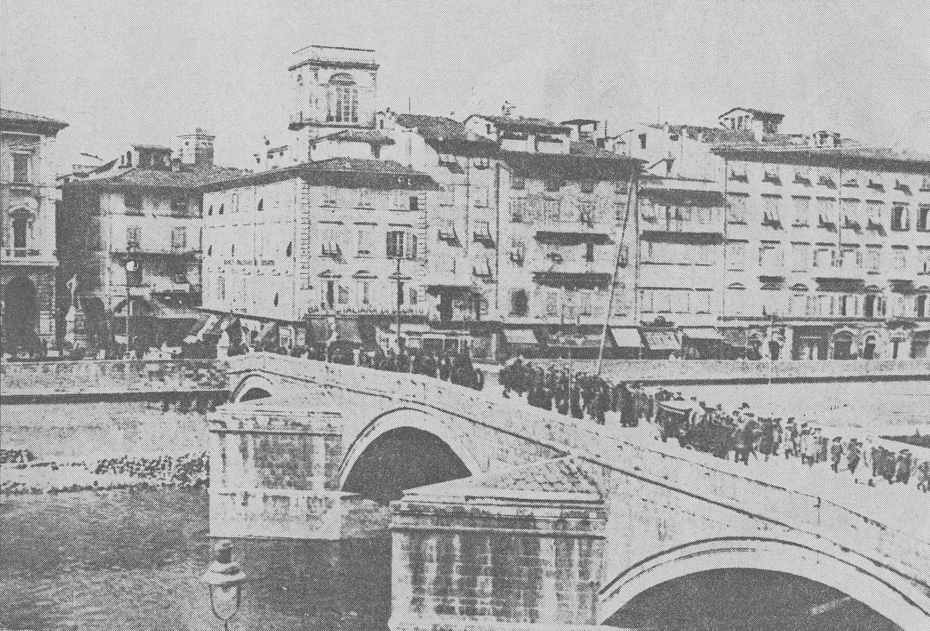 Old Middle Bridge of Pisa, Tuscany, Italy.